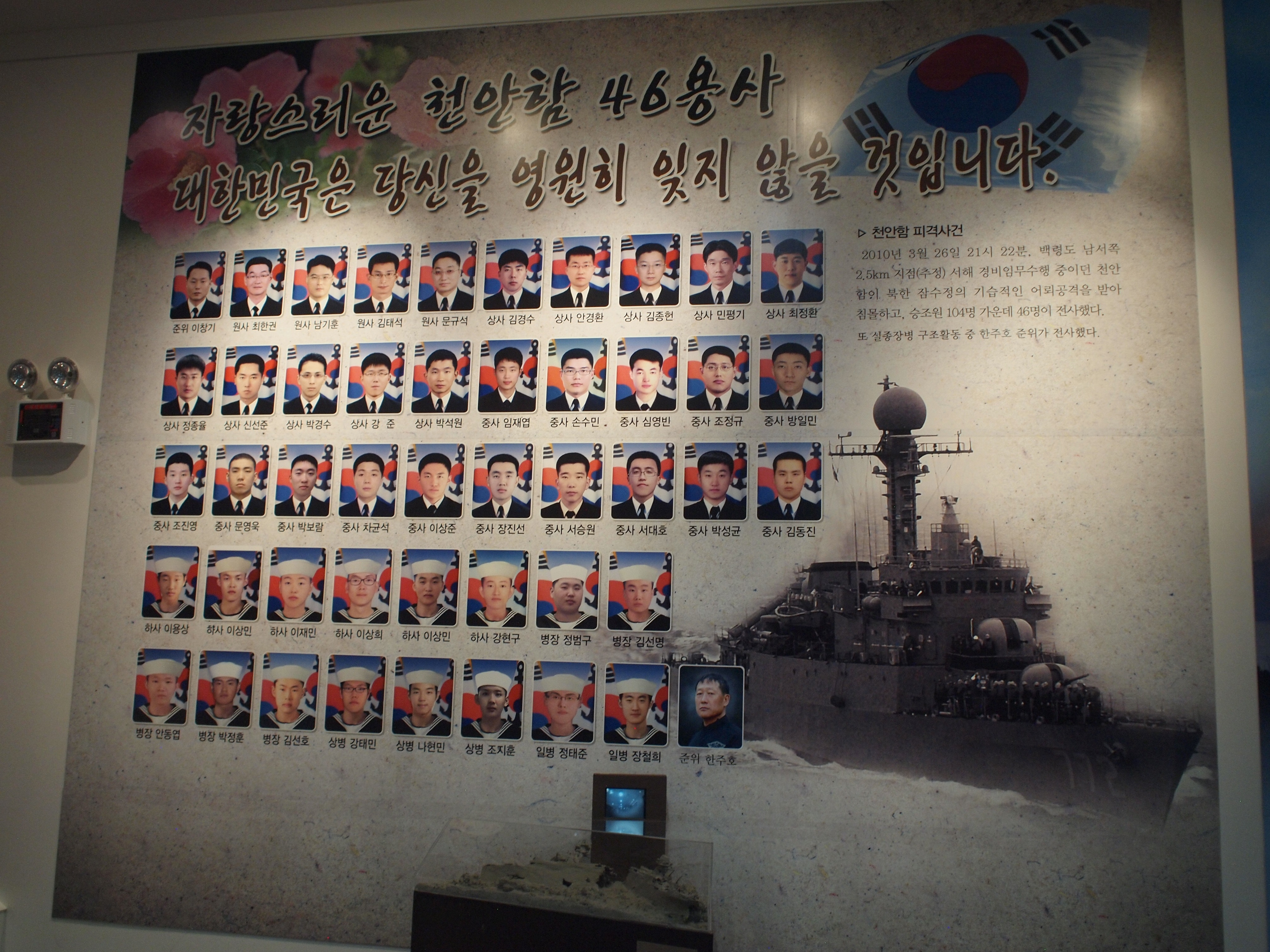 Daejeon National Cemetery